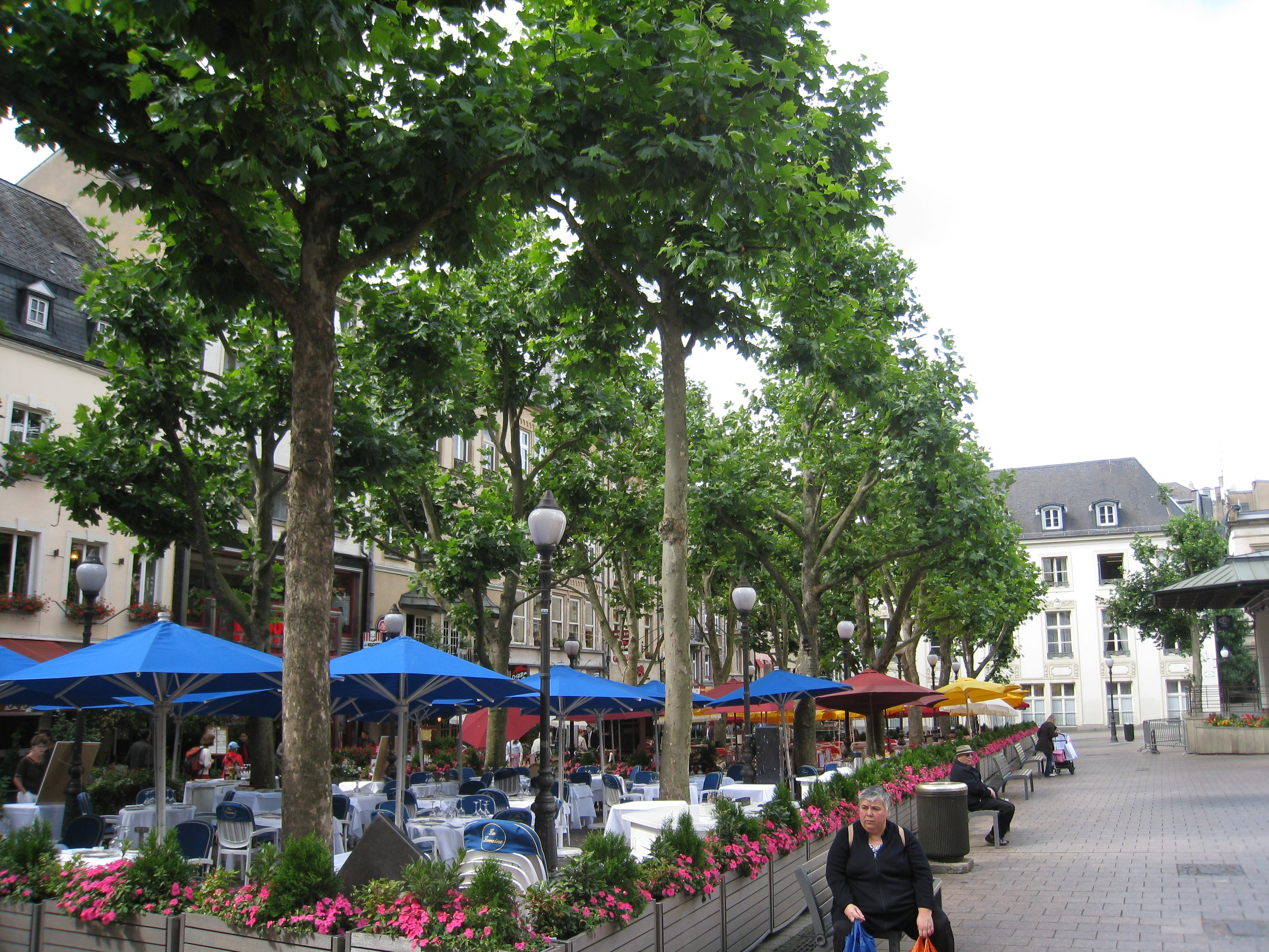 Place d'Armes, a square in the centre of Luxembourg City's old town.